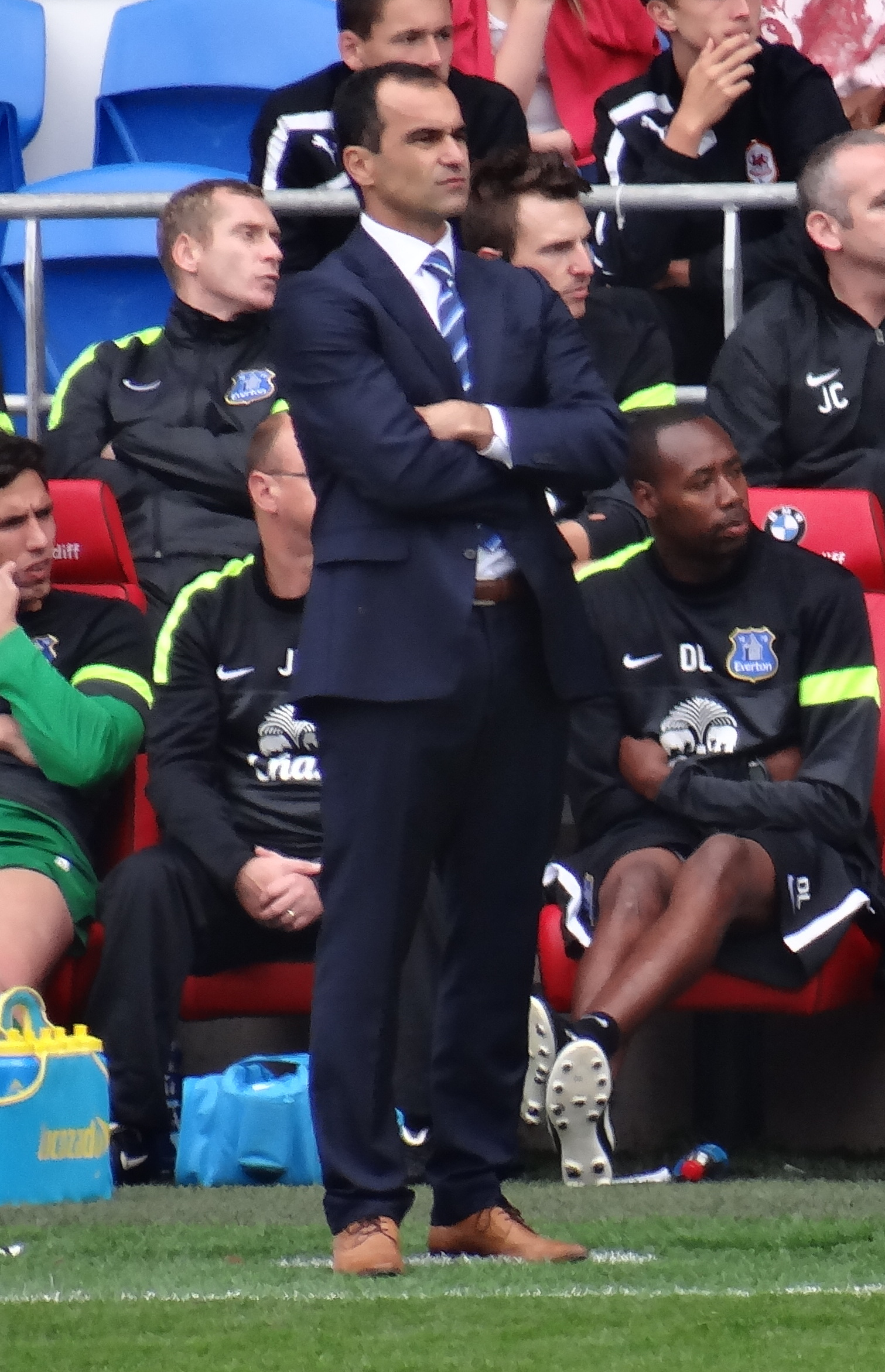 Roberto Martínez as a coach of Everton FC.